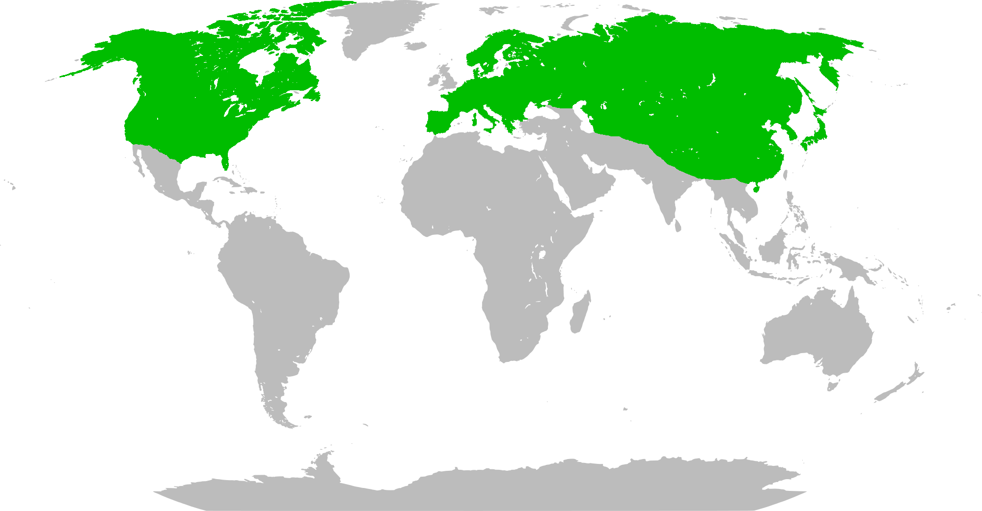 Range of Tricholoma pardinum. Base map from 2000px-World_map_blank_gmt.svg.png.